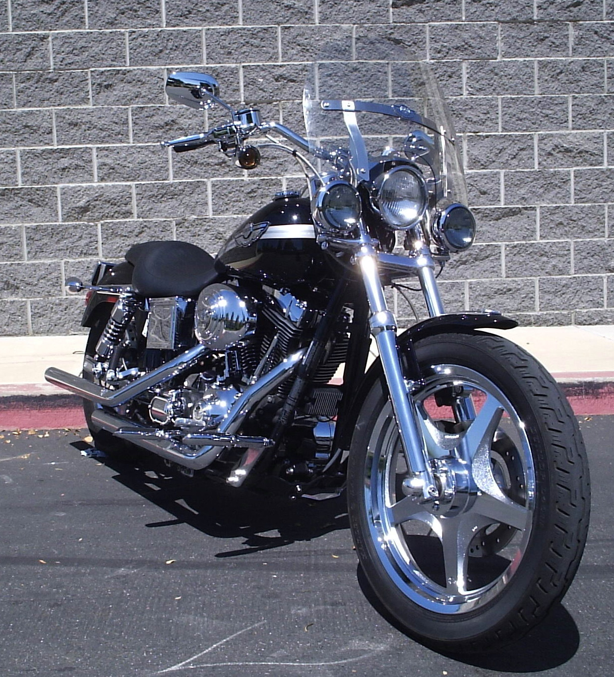 2003 Harley-Davidson Dyna Low Rider, 100th Anniversary edition with "Gold Key" package